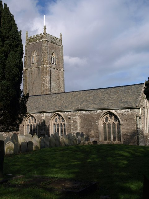 St Stephen's Church, Saltash "The C13 church on this site was probably replaced by the present building in the C15. It is built in local stone with 3 aisles, 5 bays and a tall 3 stage north-west tower with set back buttresses and crenellations ... until 1881 this was the Parish Church of Saltash although fully a mile from the centre."